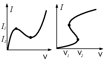 Current-voltage characteristics or IV curves showing two types of negative differential resistance. The left graph shows voltage controlled negative resistance (VCNR) also called N type. In this type the voltage is a multivalued function of current, but the current is a single-valued function of voltage. The graph is shaped vaguely like the letter N, with a voltage region with negative resistance between two positive resistance regions. Electronic devices with this type of negative resistance include the tunnel diode, Gunn diode, and vacuum tubes operating in the "dynatron" mode. The right graph shows current controlled negative resistance (CCNR) also called S type. In this type the voltage is a multivalued function, while the current is a single-valued function. The graph is shaped vaguely like the letter S, with a region of current with negative resistance between two regions with positive resistance. Devices with this type of negative resistance include the IMPATT diode, unijunction transistor, SCR, and gas-discharge tubes like neon lamps and fluorescent tubes.